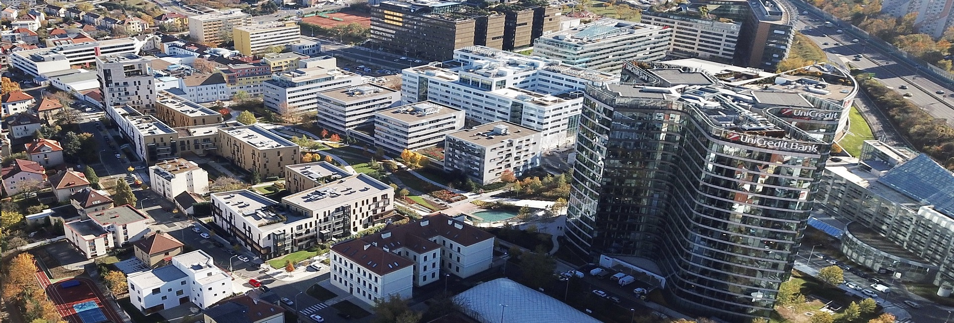 BB Centrum panorama